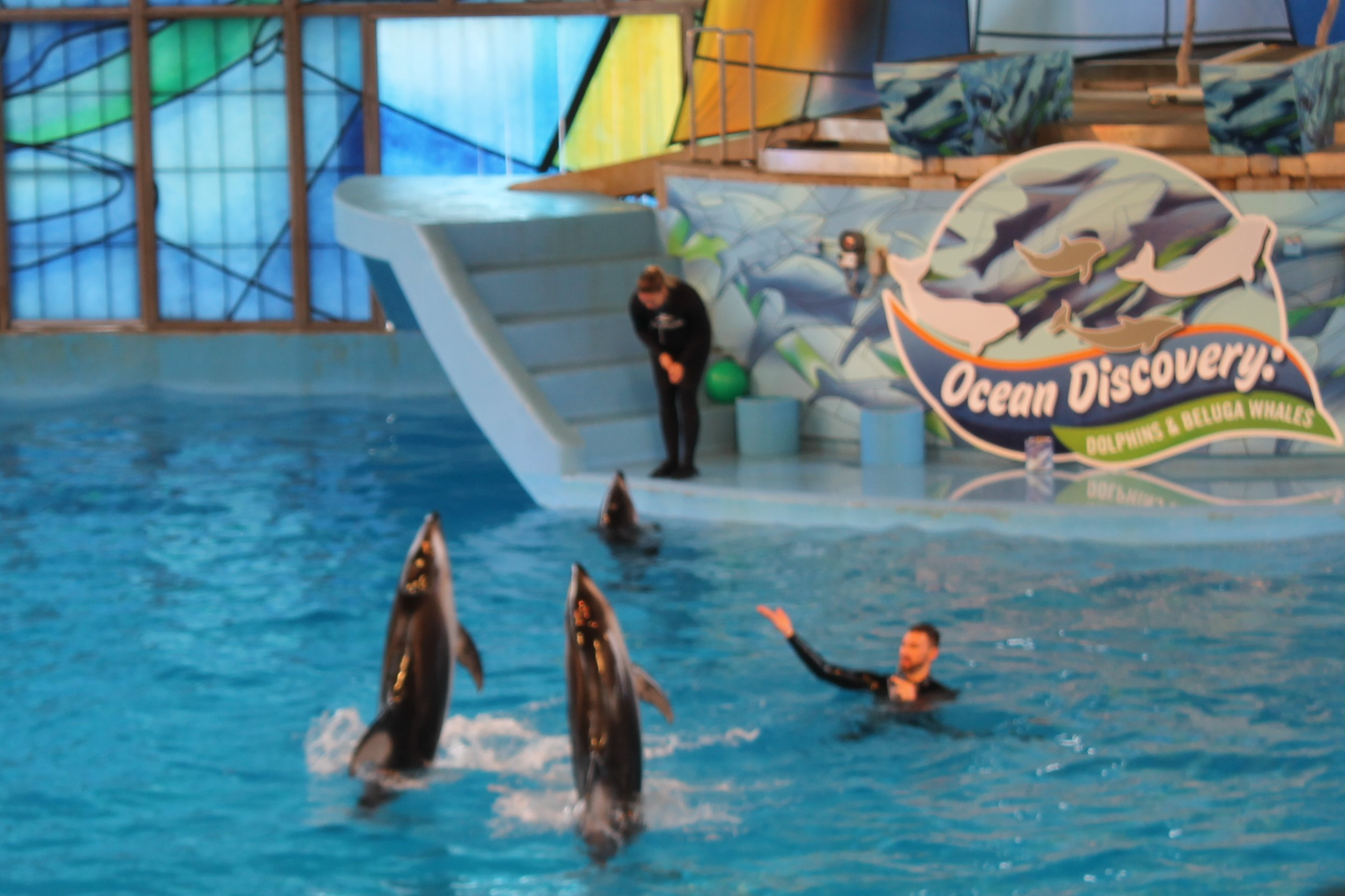 Ocean Discovery show at Sea World in San Antonio, TX